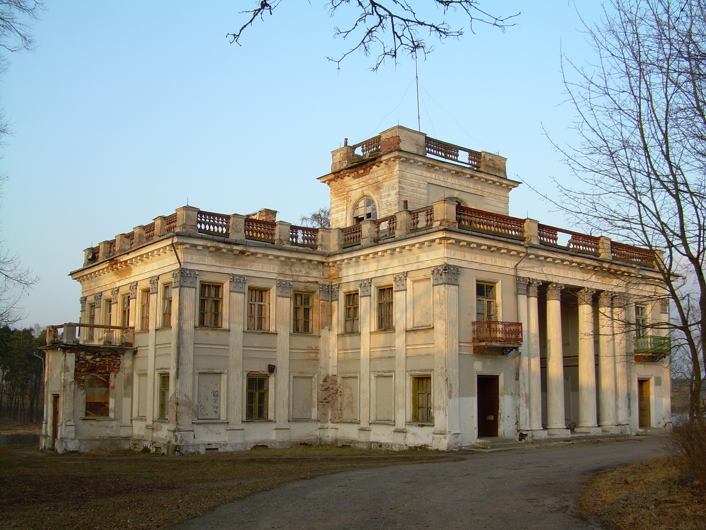 Беларуская (тарашкевіца): Сядзіба. в. Жамыслаўль This is a photo of Belarusian heritage monument. Reference number: 413Г000296 ( WLM)